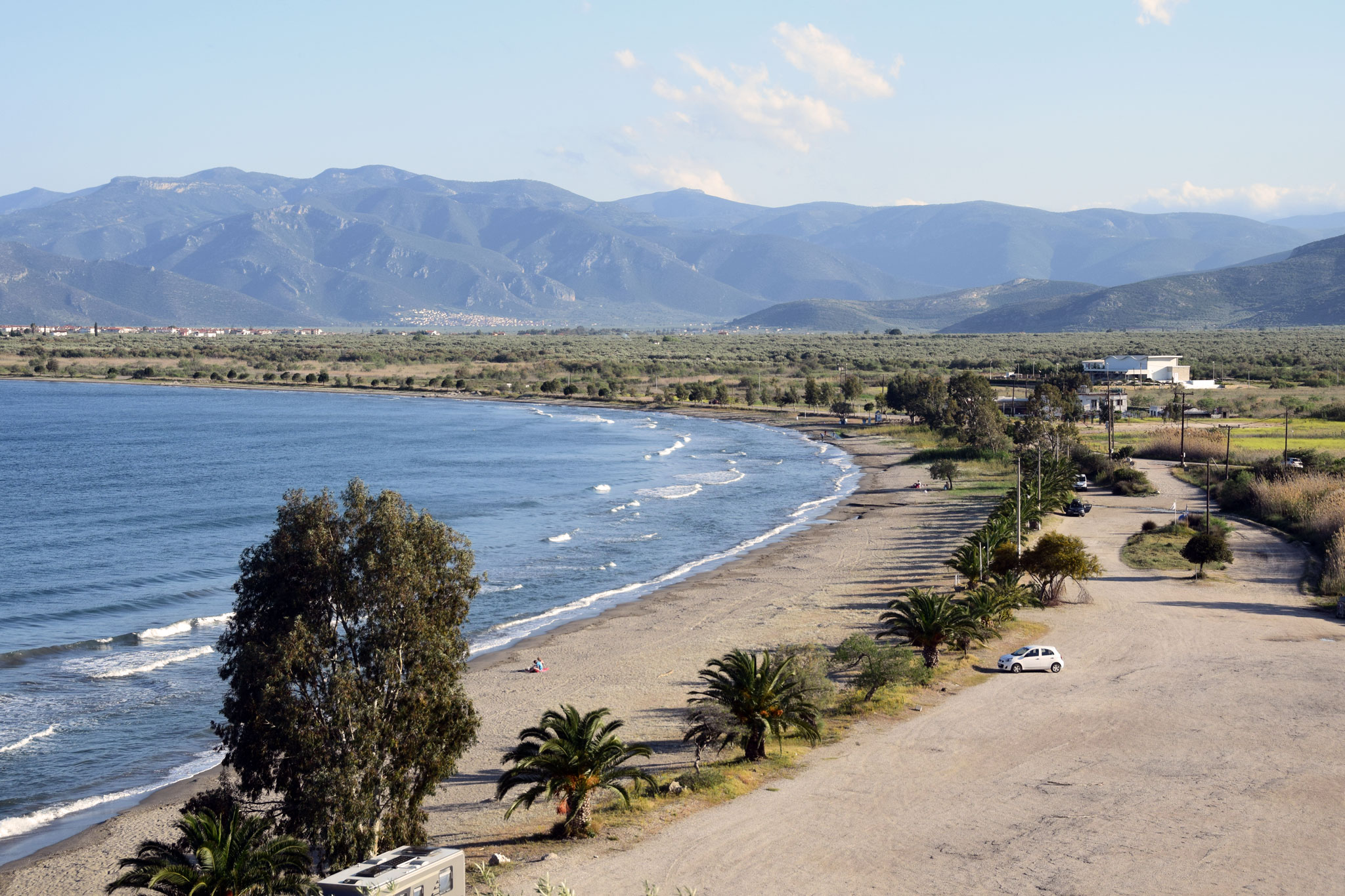 Kato Vervena beach in North Kynouria of Arcadia, Greece.